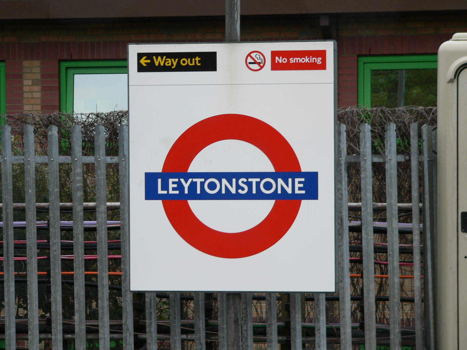 This enamel station sign at Leytonstone is typical of most outdoor stations on the network.